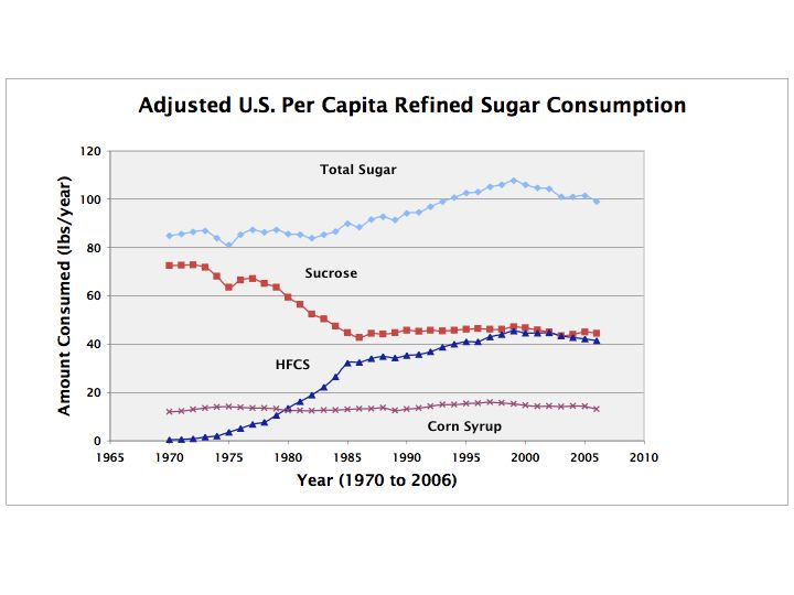 Adjusted sugar consumption patterns in United States from 1970 to 2006.